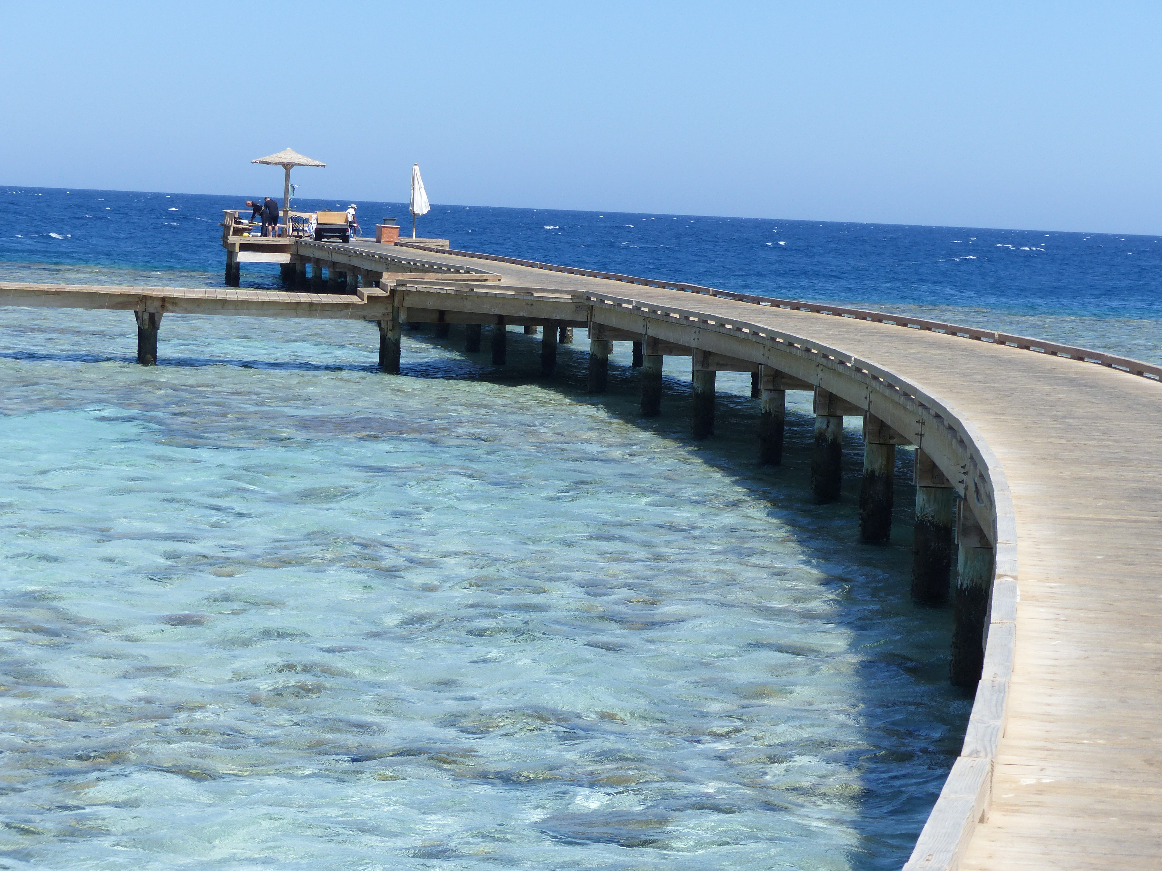 Pier Soma Bay